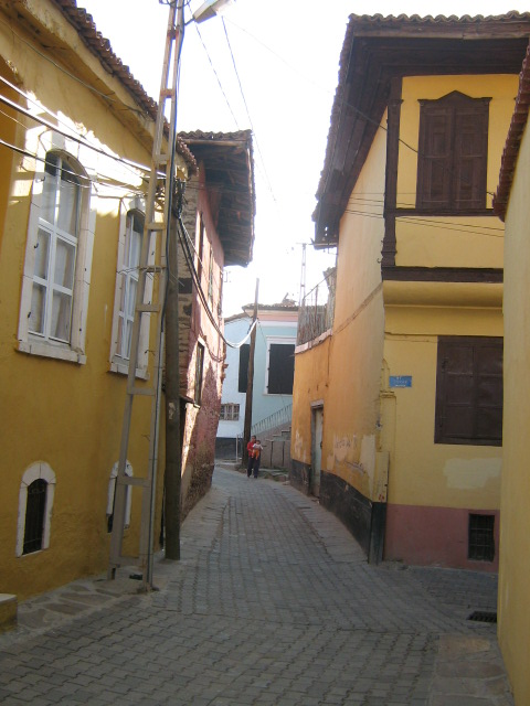 Kula, Manisa, Ismir